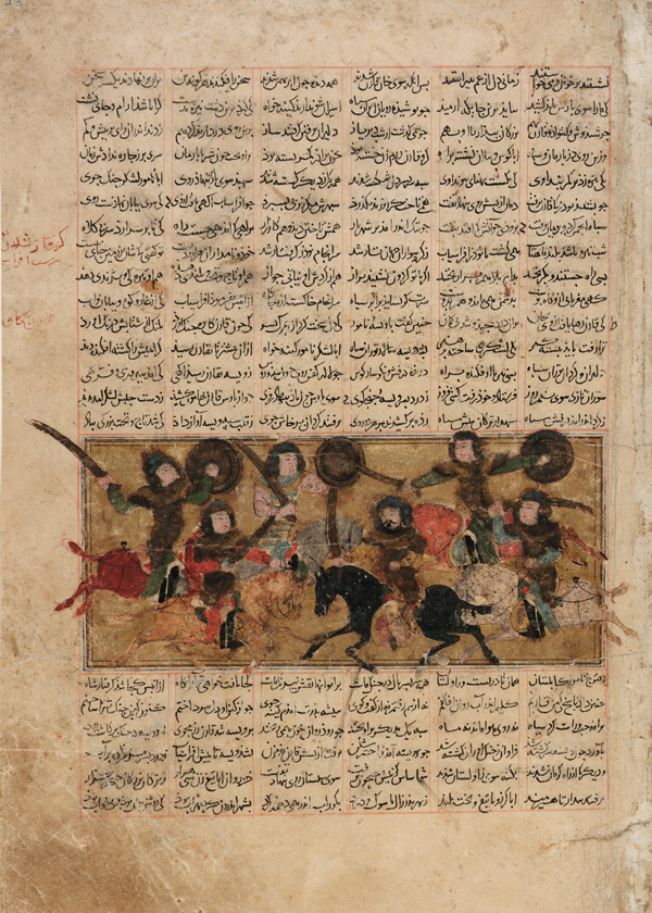 Folio (A battle between the forces of Naudar and Afrasiyab) from Shahnameh (Book of Kings).